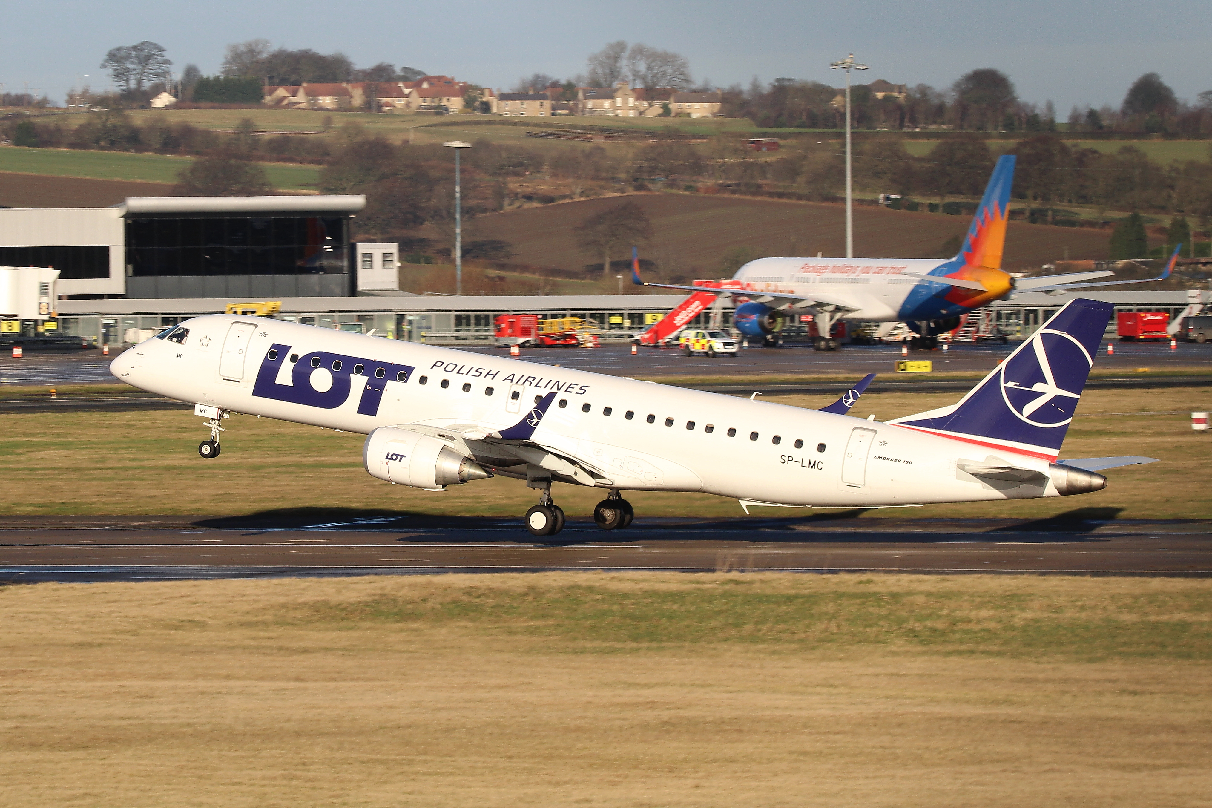 A surprising arrival at LBA, diverted in whilst operationg a Warsaw-London City flight due to fog in London